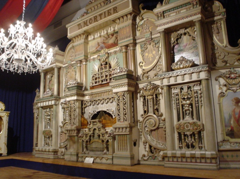 1 March 2007 These are dance-hall organs. They're not actually bigger or louder than street organs, they're just arranged to take up more visual space. In the days before sounds systems and DJs, street parties, festivals and the like still didn't have to depend on live musicians. These organs could be moved to your town, set up in a hall or a tent and provide audio and visual entertainment for a party. At the clockwork instrument museum in Utrecht Dance organ "Mortier" (1927) by Th. Mortier